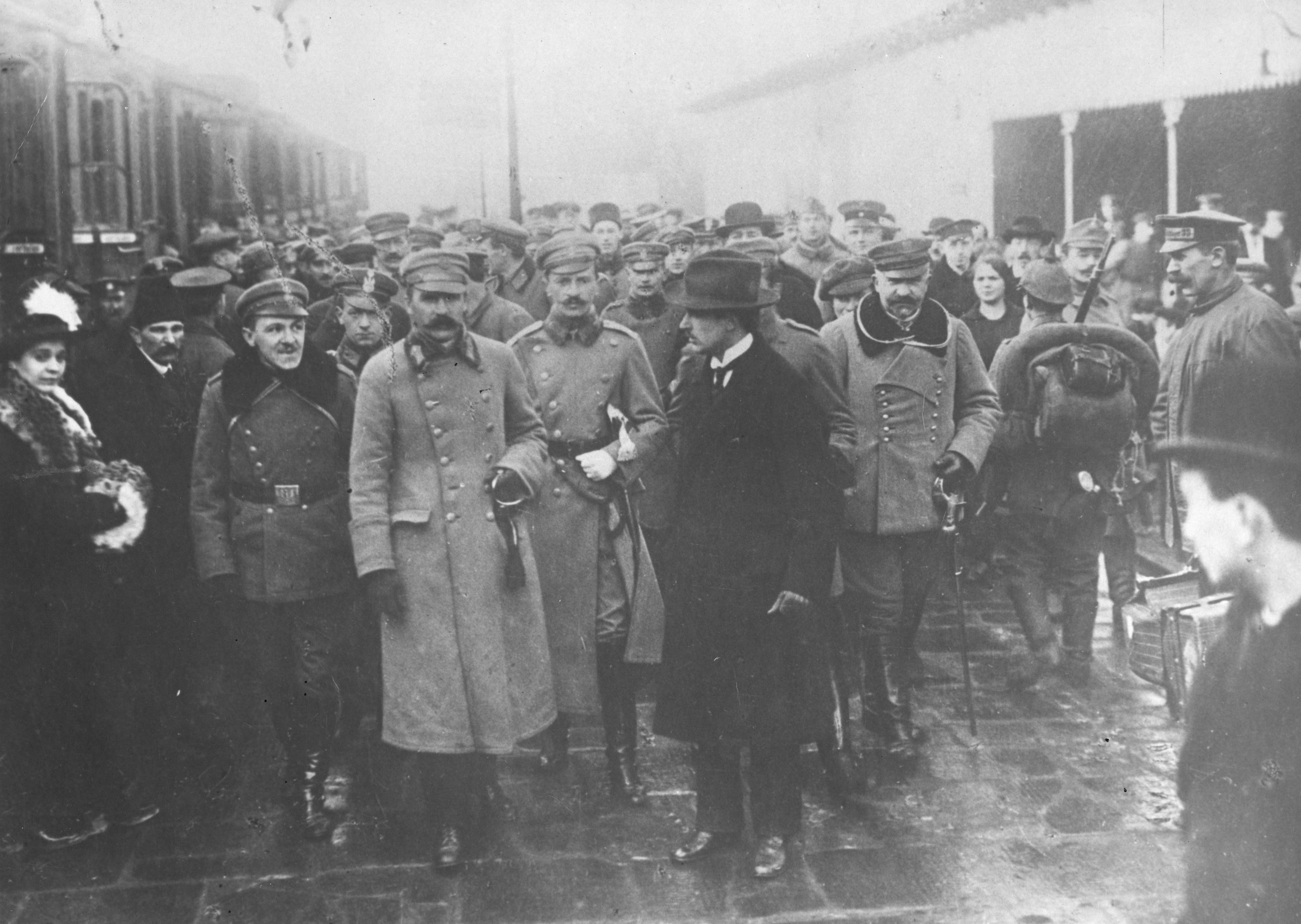 Józef Piłsudski, on Warsaw Wien's railway station after his arriving, 12th of December 1916.; this photo was often incorrectly dated to 10th of November 1918